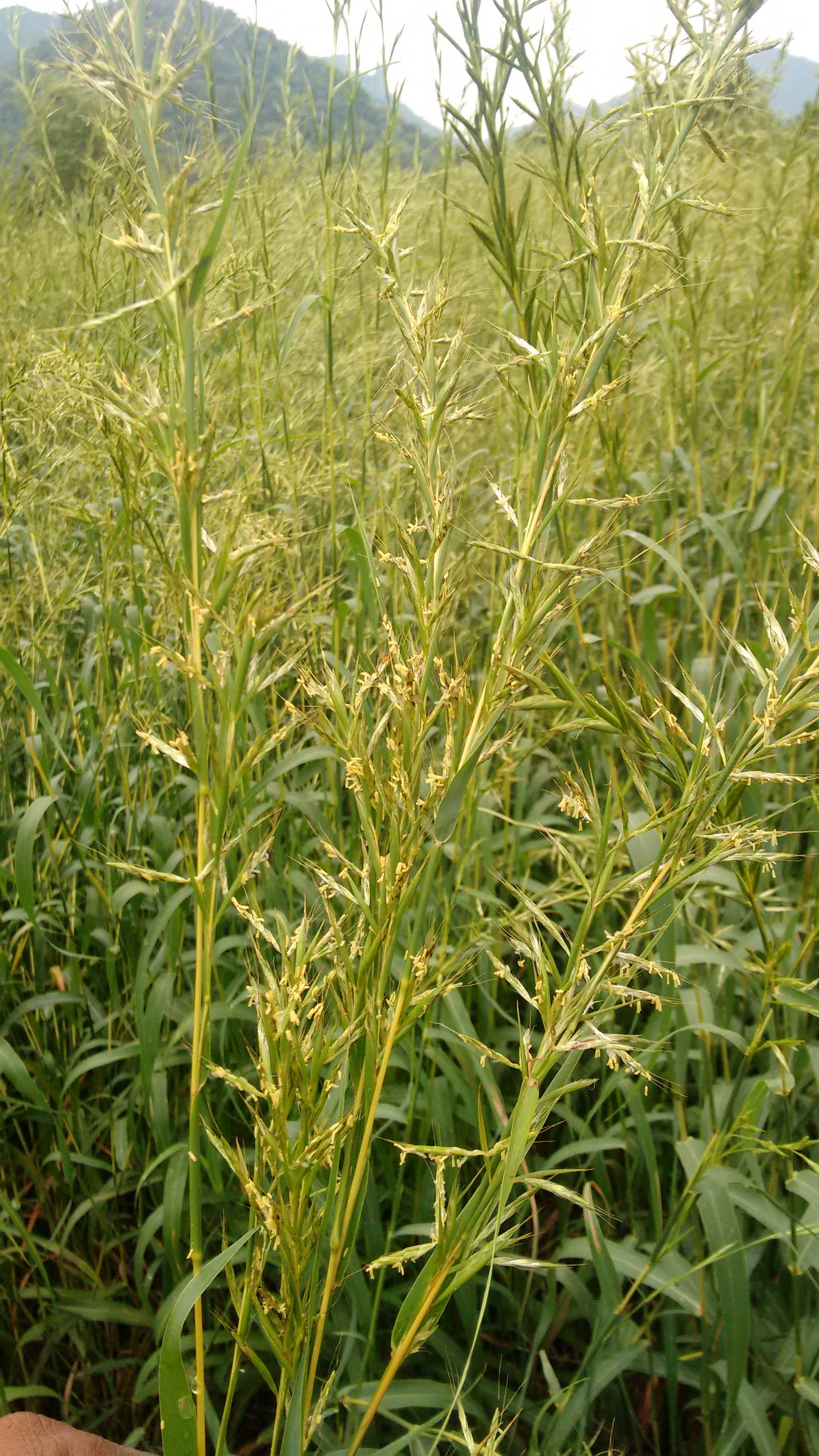 Cymbopogon martinii - Palmarosa grass at full Flower blooming stage.This photo at Sesha farms during the month of December.